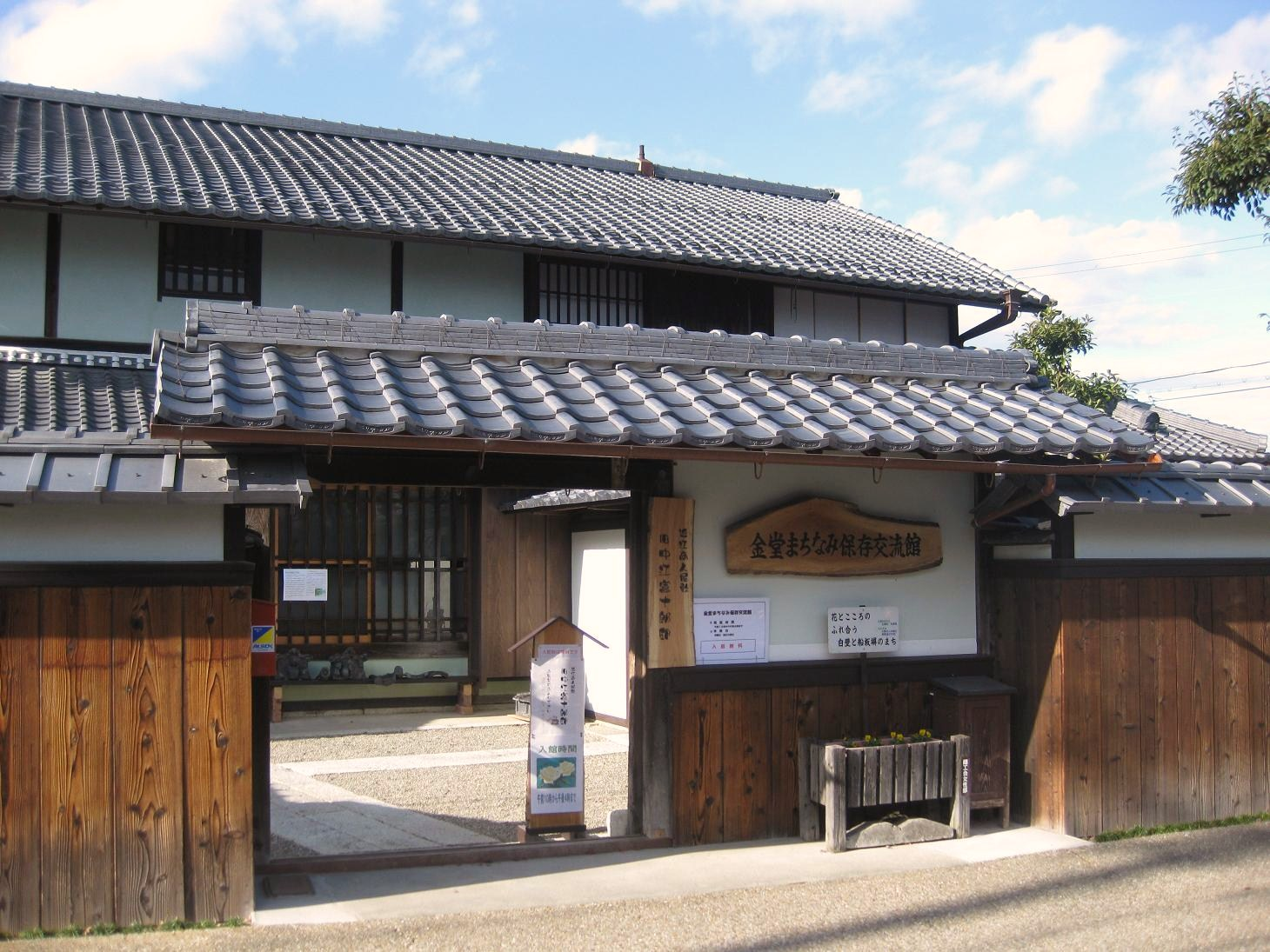 Kondo machinami hozon koryu-kan, Gokashokondo-cho, Higashiomi, Shiga, Japan